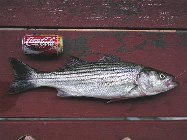 A striped bass caught around Alameda CA